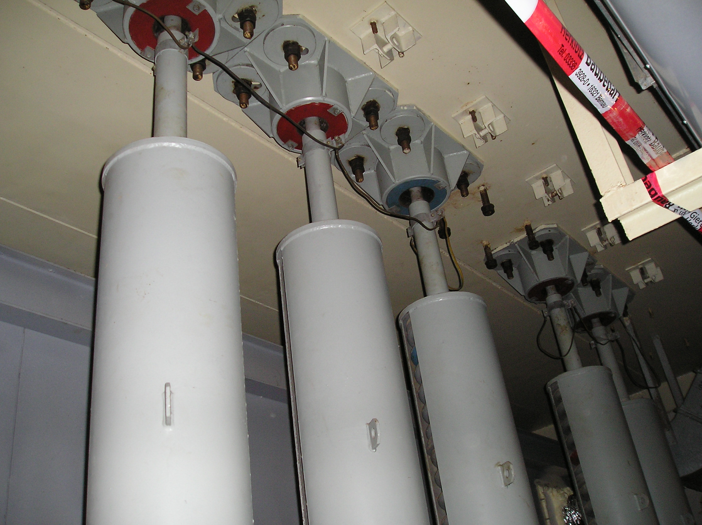 Object 17/5001 shelter in Prenden, Germany